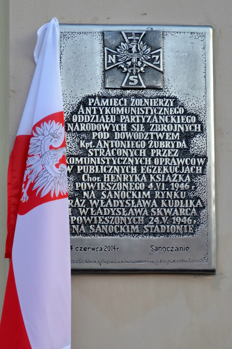 Memorial plaque for Cursed Soldiers in Sanok